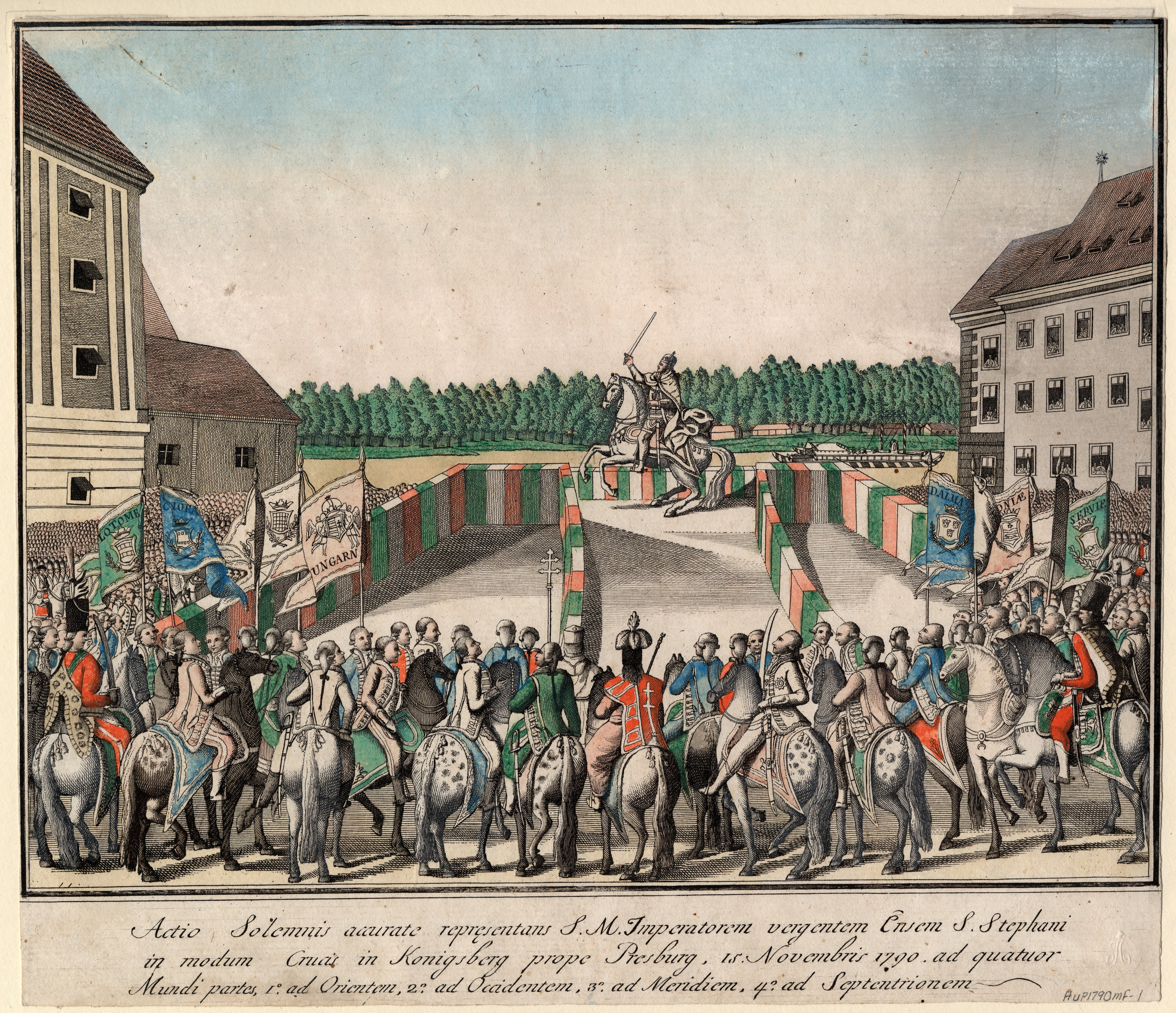 Actio solemnis accurate representans S.M. Imperatorem vergentem Ensem S. Stephani in modum Crucis in Konigsberg prope Pressburg, 15 Novembris 1790